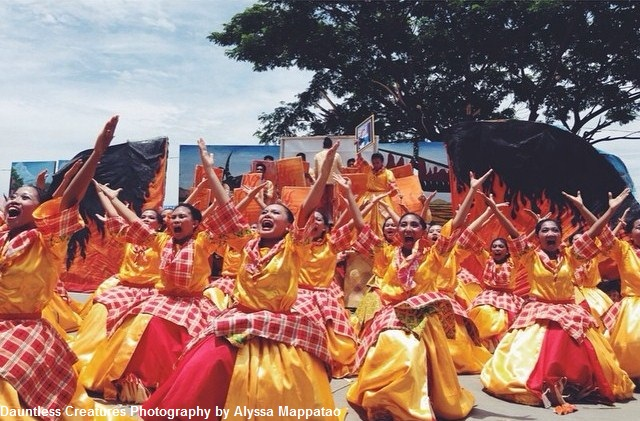 Tuguegarao's Festival